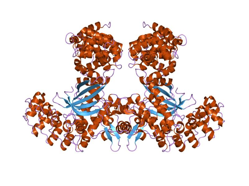 Cartoon representation of the molecular structure of protein registered with 1g3n code.